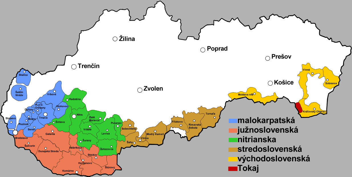 Wineyard regions of Slovakia